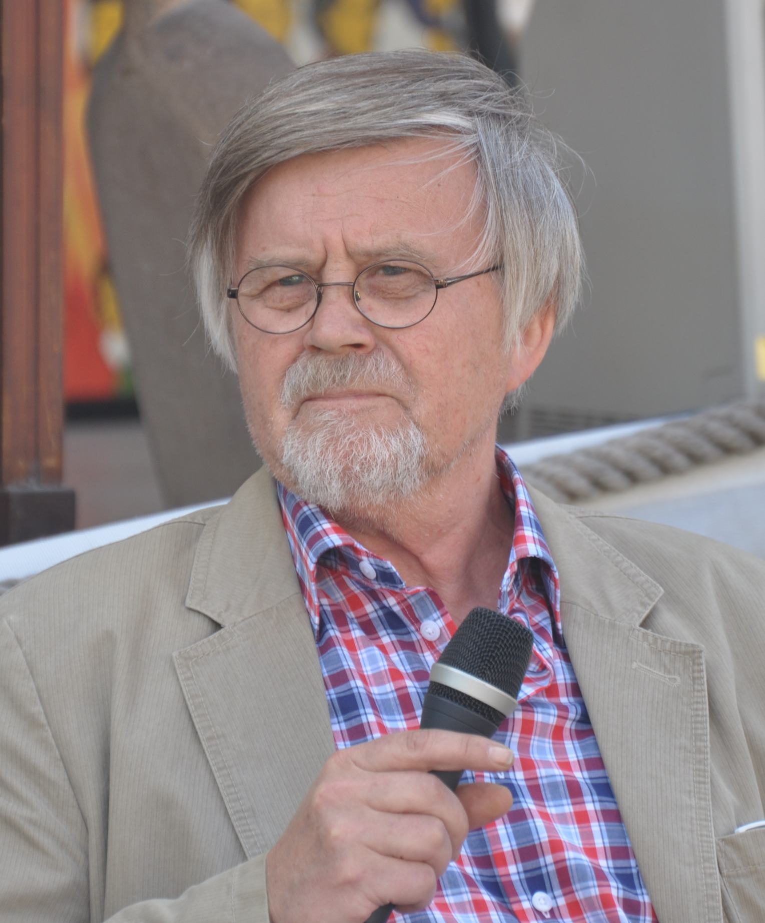 Finnish writer and book publisher Kai Linnilä at Booktori in Turku, 2012.